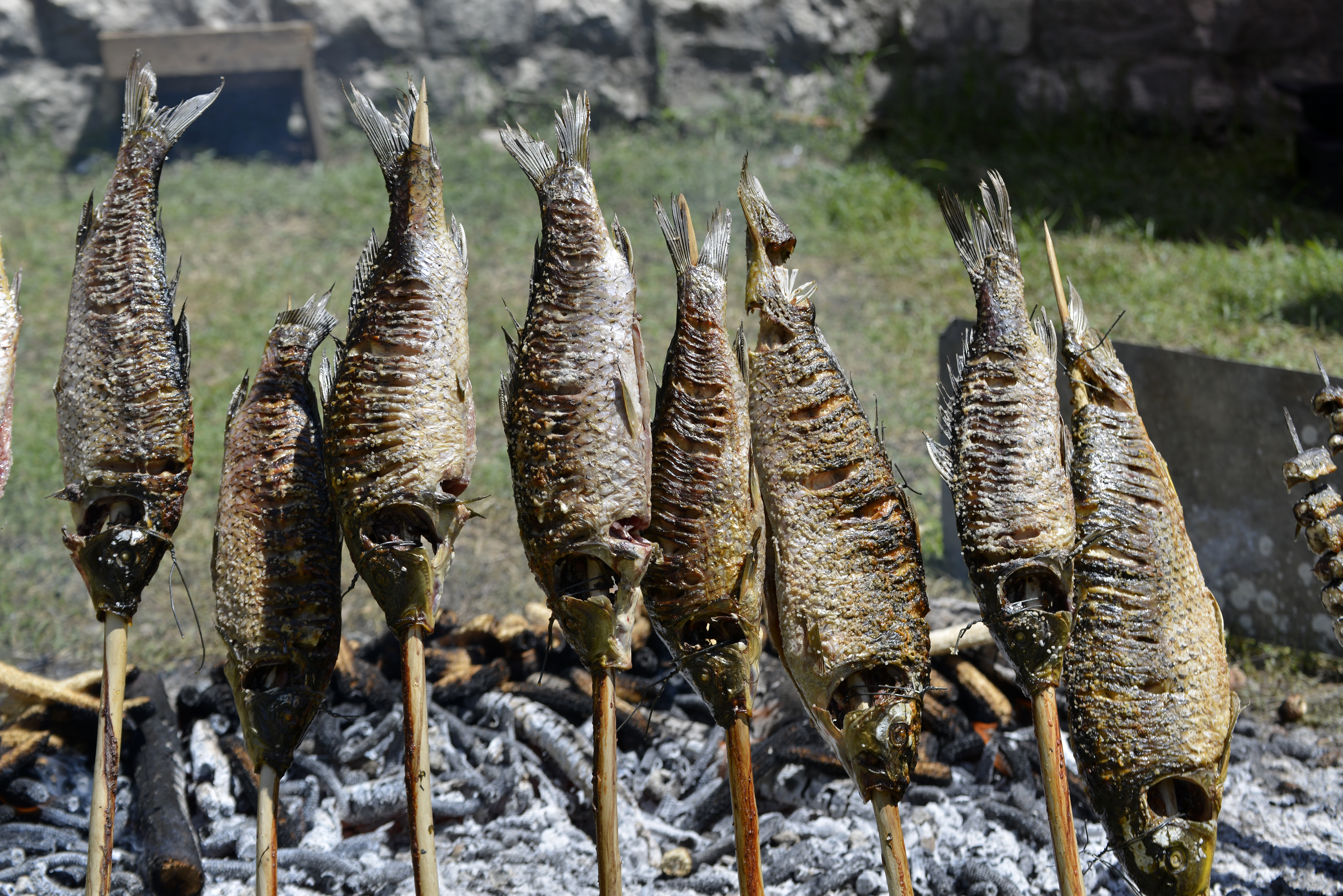 Traditional carp (Cyprinus carpio) roasting on a fire Srpski (latinica): Tradicionalno pečenje krapa (šaran - Cyprinus carpio) na žaru This photo has been taken in the country: Montenegro